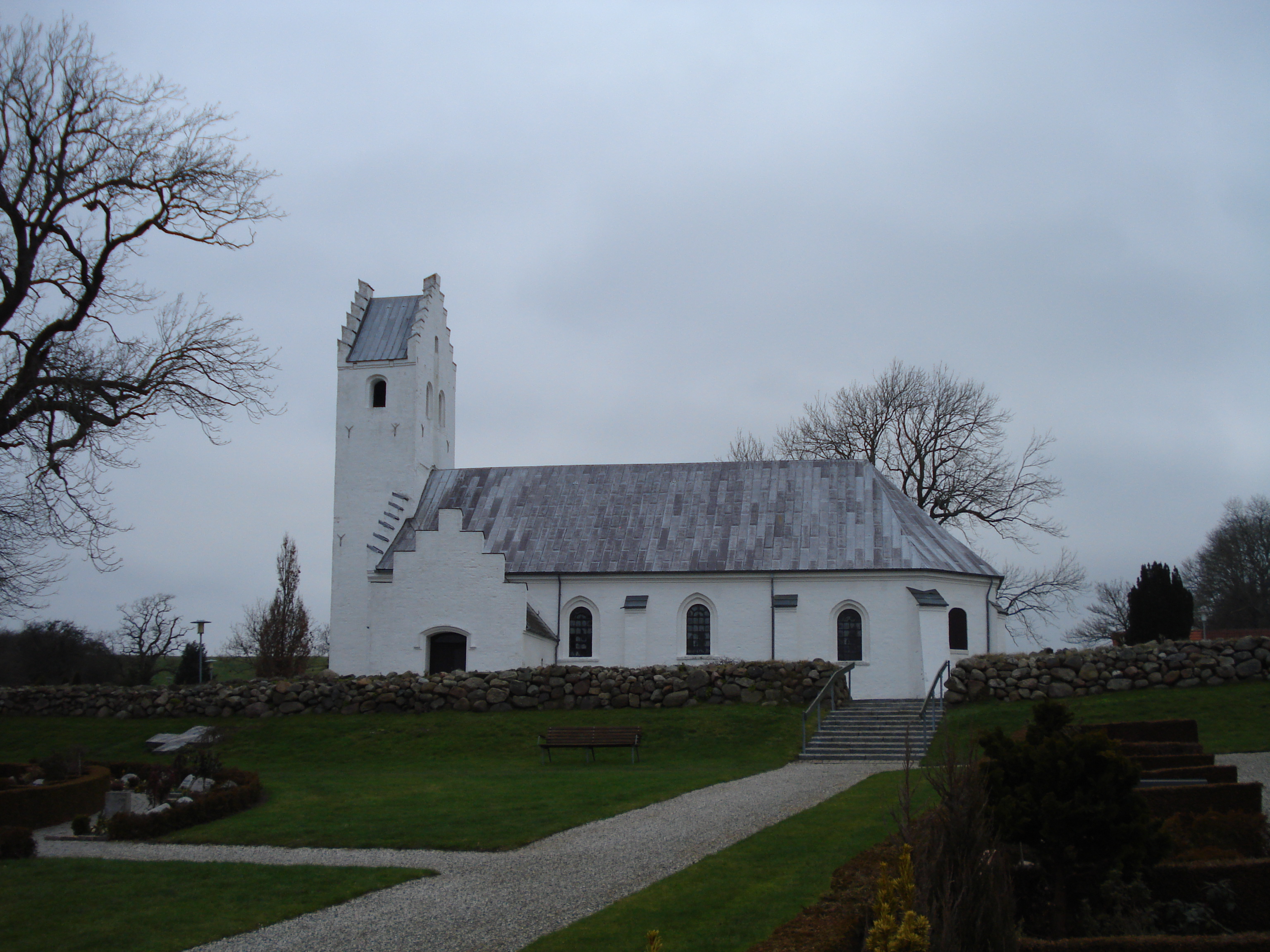 Bregnet Kirke (Bregnet Church, Jutland, Denmark) seen from the southern side